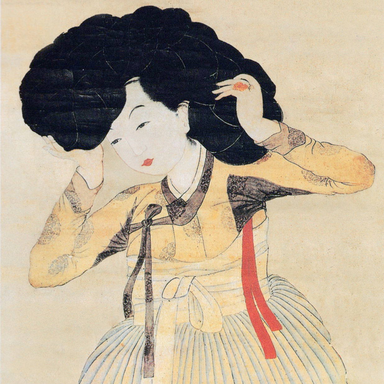 Miindo (literally portrait of a beauty). The painter is anonymous but the painting was handed down to a prominent Yun family in Hanam, Jeolla Province before it is stored at Gansong Art Museum in Seoul, South Korea.